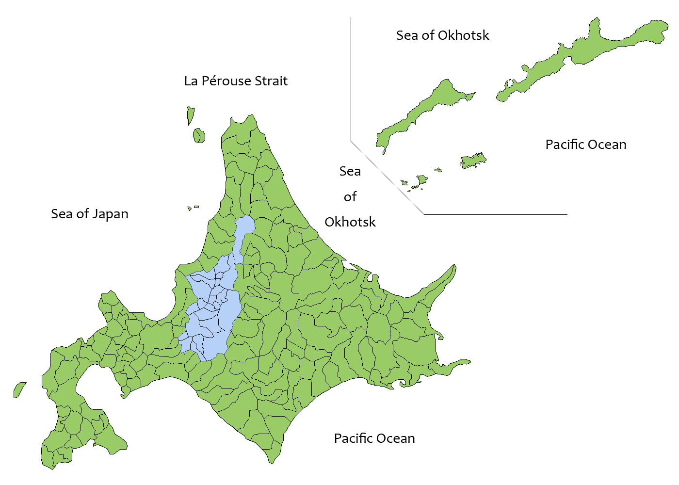 Map of Sorachi subprefecture in English